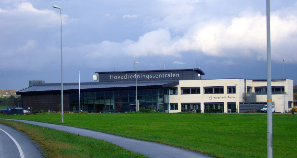 Hovedredningssentralen- Rescue office in Norway (in Sola near Stavanger)